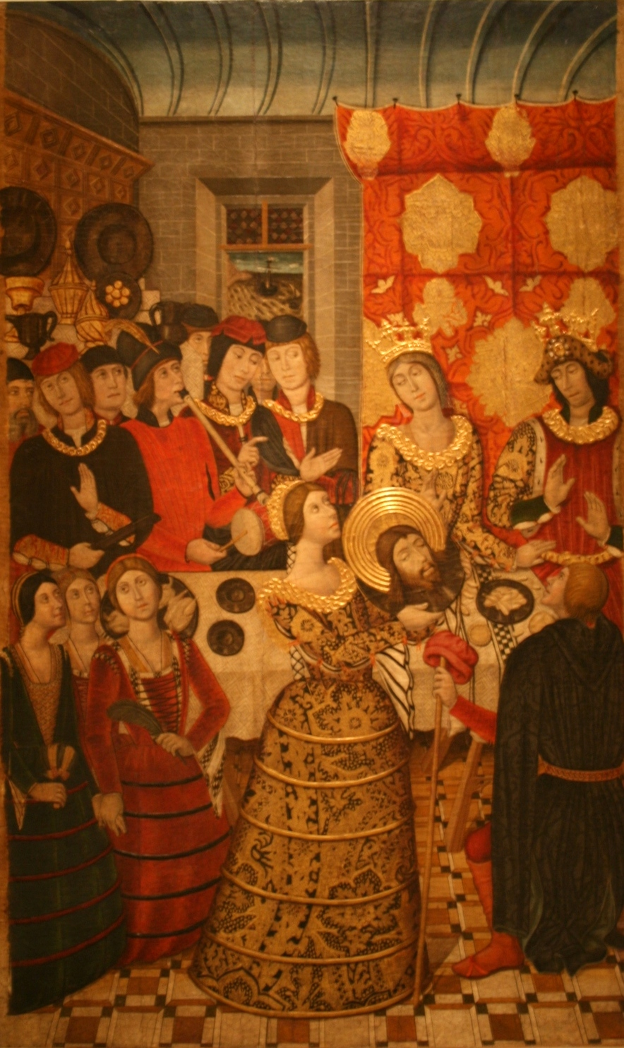 Three-hole recorder in a 15th-Century catalan altarpiece. Herod's banquet by Garcia de Benavarri. ca. 1470.